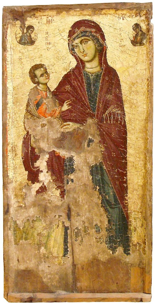 Mary Episcepsis, Early XIV Century, Ss. Cosmas and Damian Church, Ohrid Icon Gallery